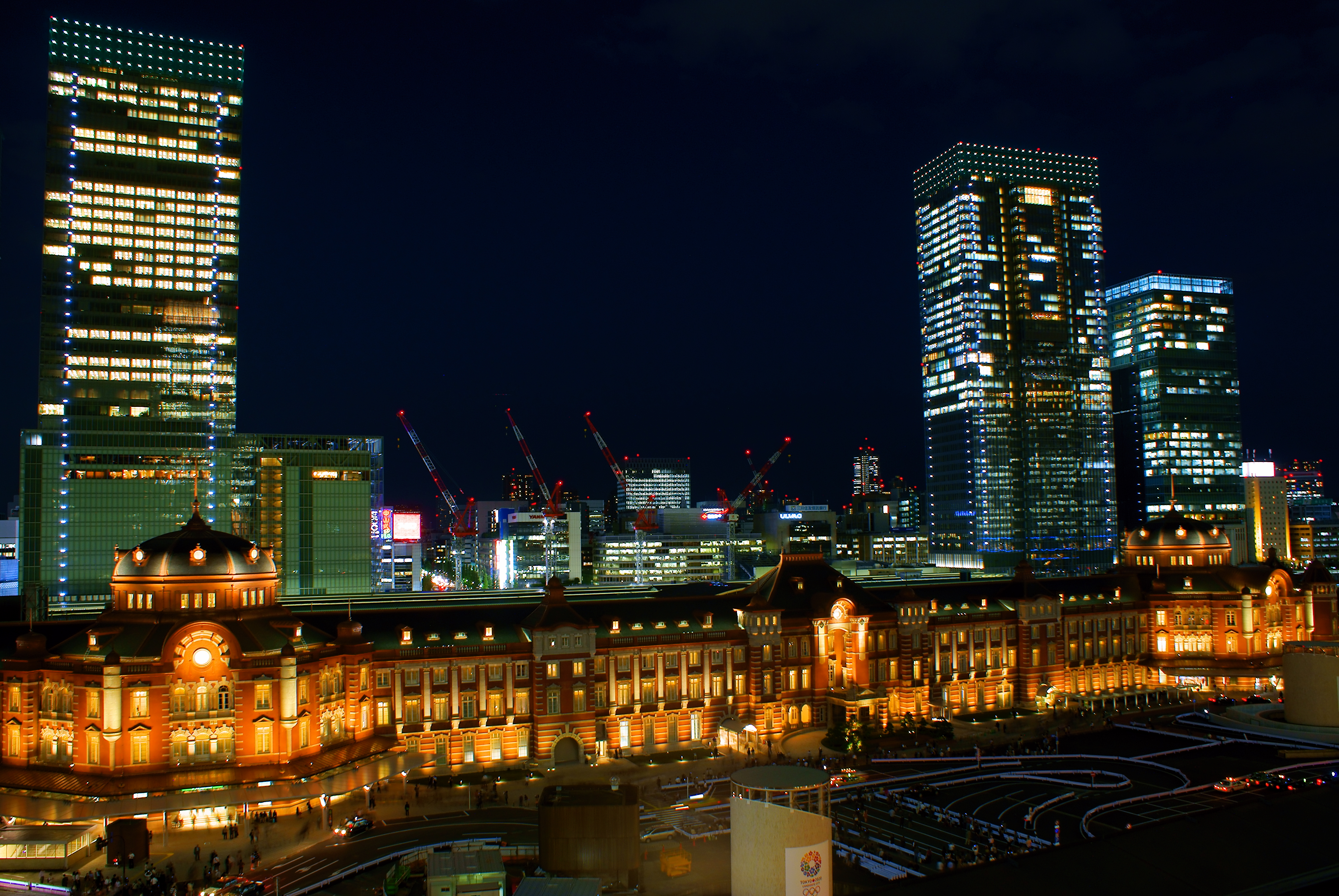 The night view of Tokyo station taken from Shin-marunouchi building : After civilization and enlightenment in Japan in 1854, the Japanese Government was going to push forward westernization desperately to catch up with Western civilization. At first, they acquired Western architectural technologies in order to construct modernize city, and imitated architecture of the British Empire which was a world's greatest large empire in those days. Tokyo Station is built with queen Ann style, and queen Victoria style and is one of the best masterpieces of the Japanese early Western building.